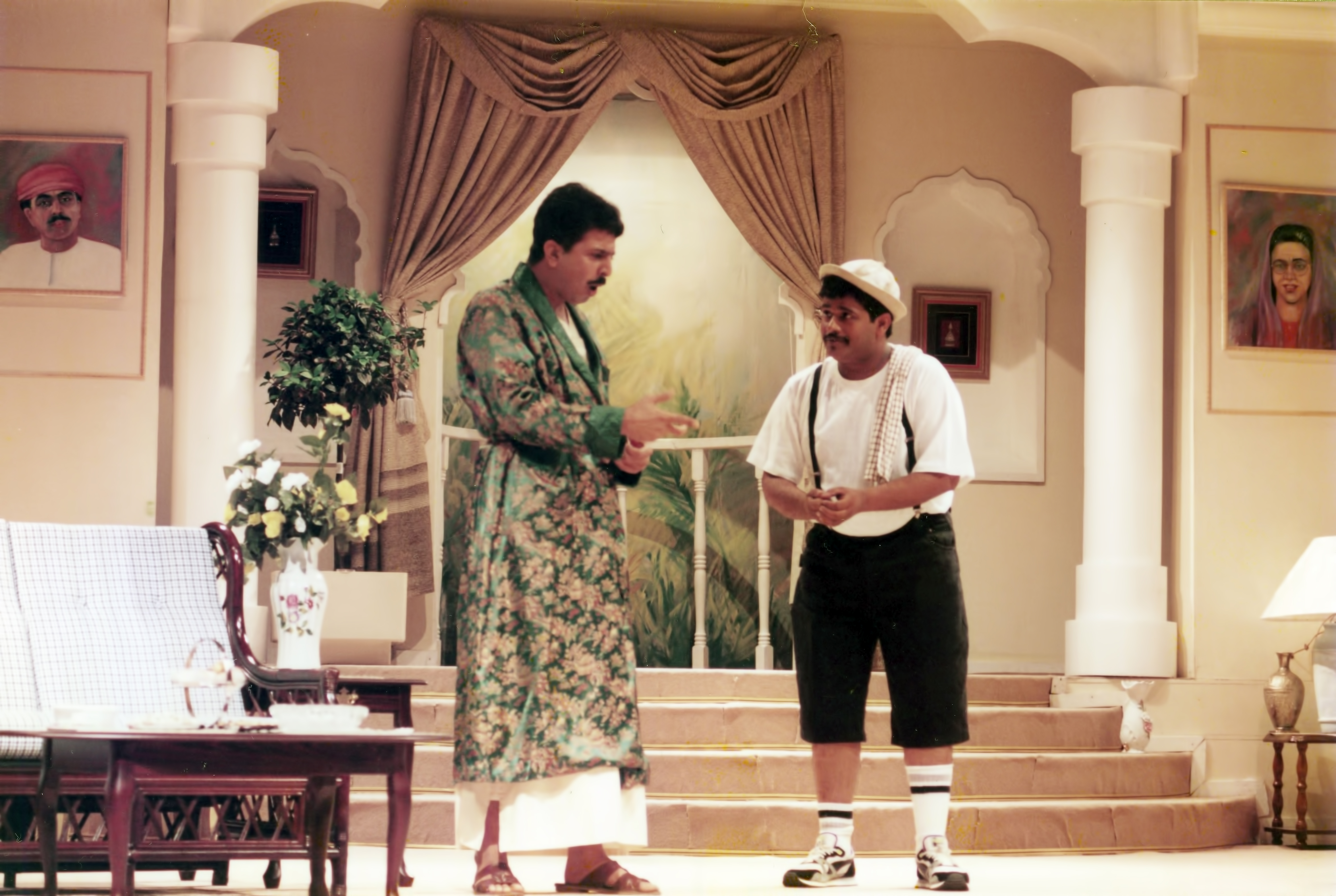 Mohammed Said Al-Shanfari directed Grandma